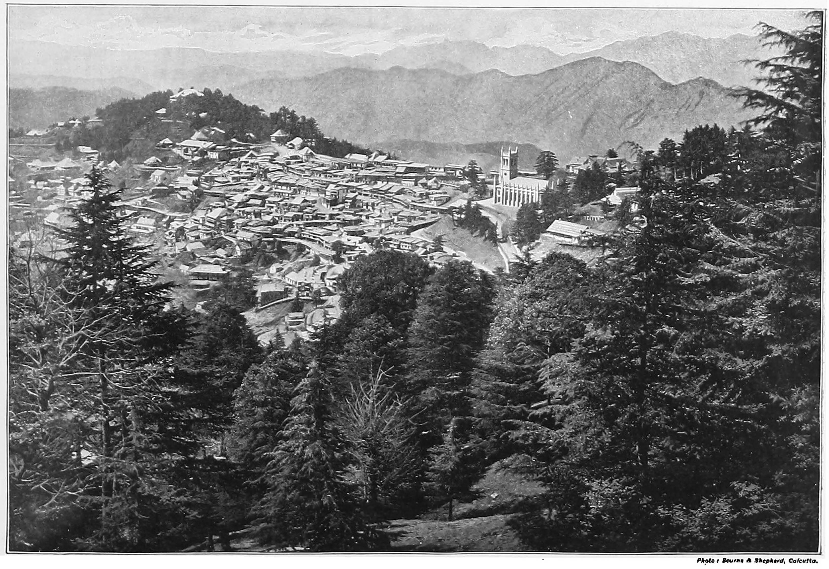 SIMLA. Simla, the summer capital of India, is the scene of much of the tragedy and the comedy of Indian life. Here in the hot weather comes the Viceroy, with the heads of the great departments, who on this cool hillside transact the daily business of the Indian Empire. Here wars are planned, peace is made, famines fought. Hither also comes the Vice-regal Court with its life, its gaiety, its intrigues, and its scandals. Here those who are well and have leisure may enjoy themselves, while those whose health is shattered by the fierce heat of the plains may find new life in the mountain breezes that blow over the rhododendron woods, and sweep down cool and refreshing from the snowy peals of the Himalayas. Simla itself is 7,084 feet above the sea, and is nearly 1000 miles from Calcutta.